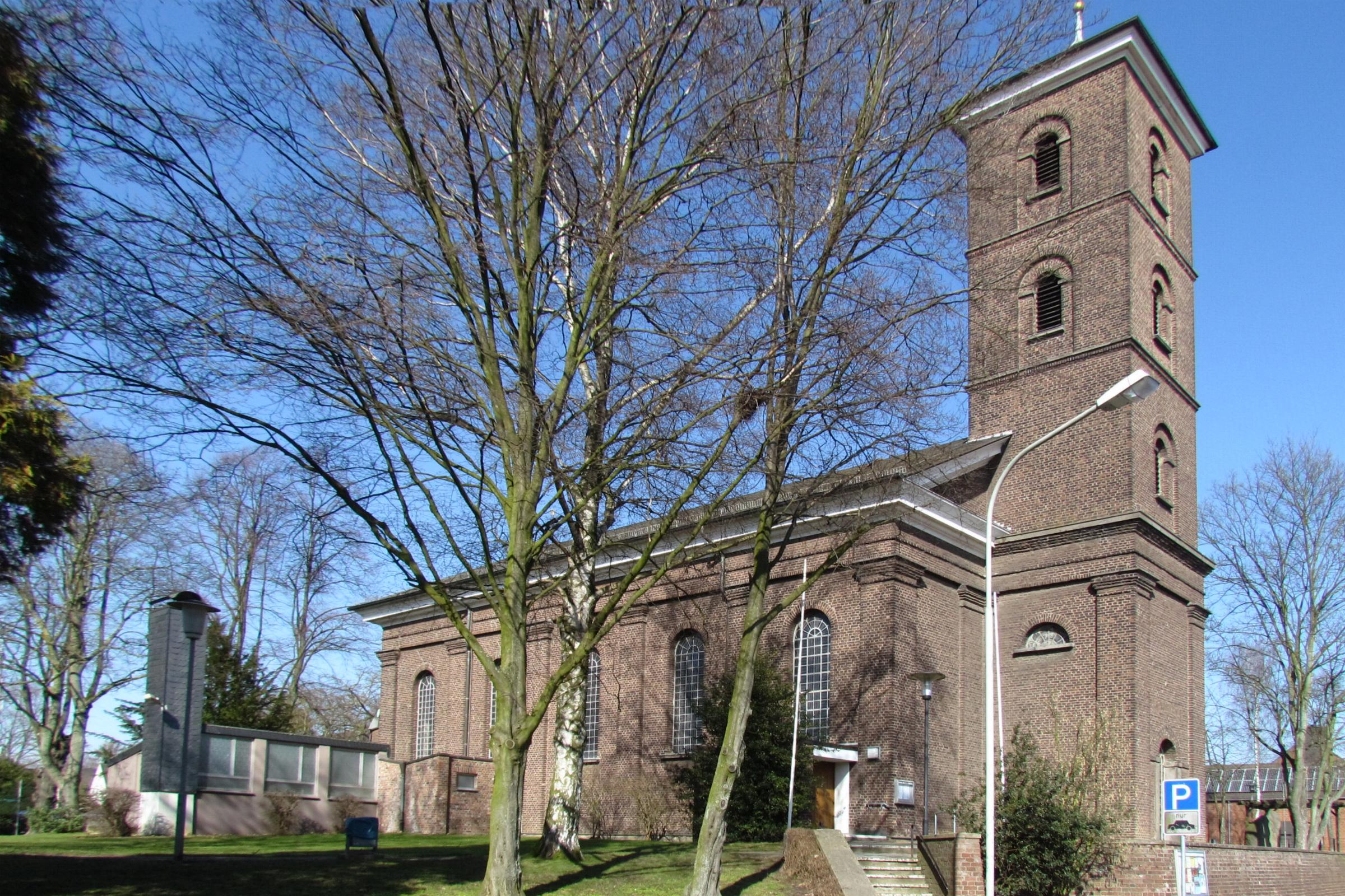 This is a photograph of an architectural monument.